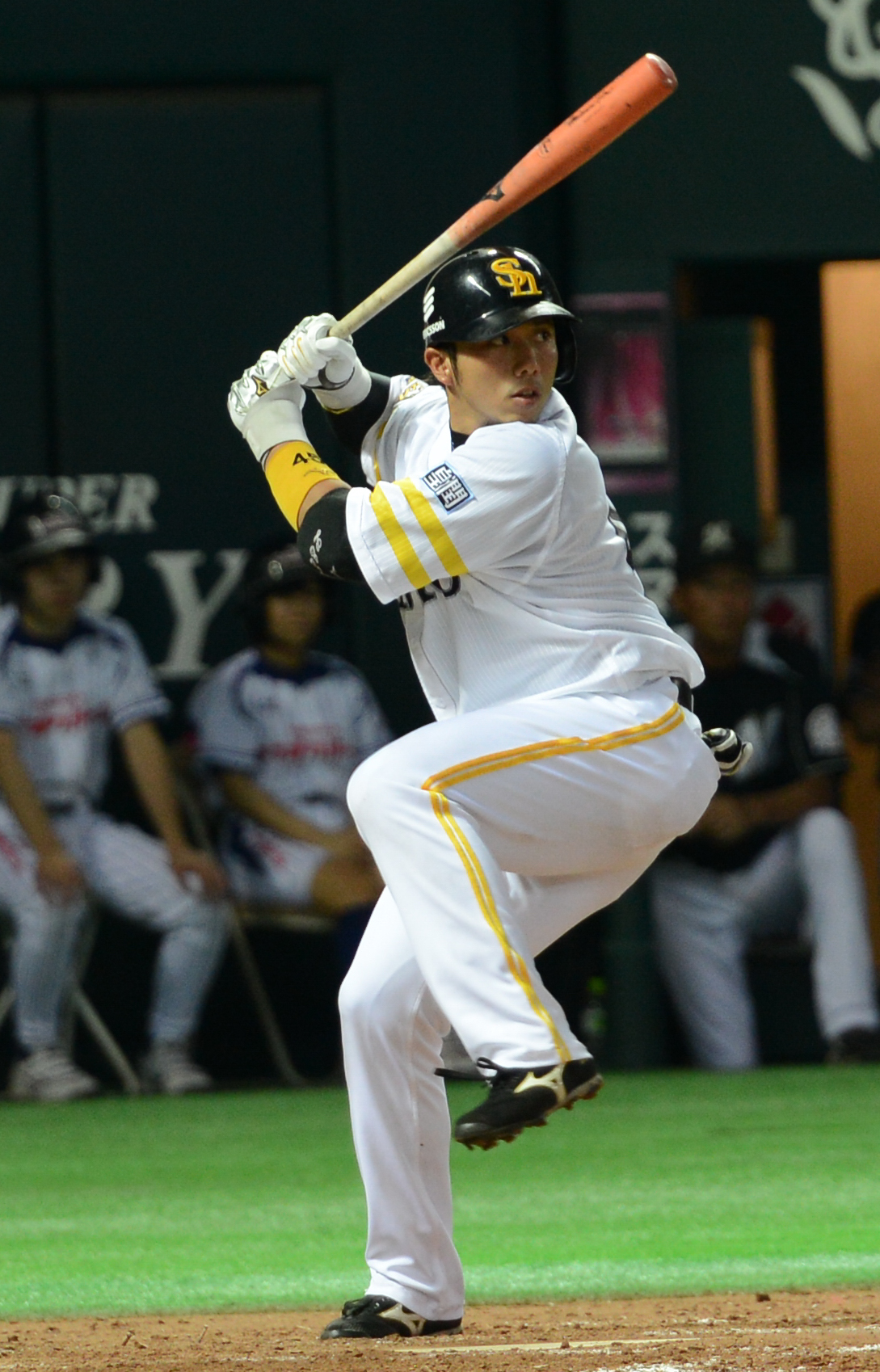 Tu-Hsuan Lee, infielder of the Fukuoka SoftBank Hawks, at Fukuoka Dome.